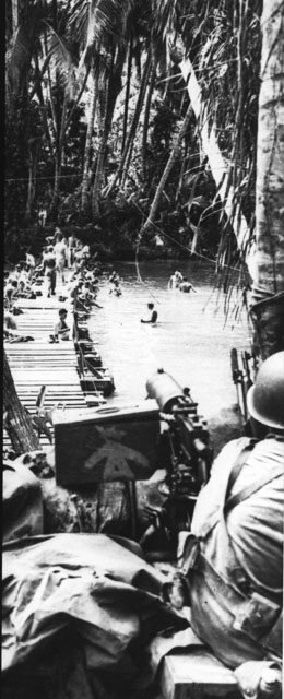 A U.S. Marine machine gunner and his Browning .30-caliber M1917 heavy machine gun stand guard while 1st Marine Division engineers clean up in the Lunga River, Guadalcanal sometime between August, 1942 and January, 1943.